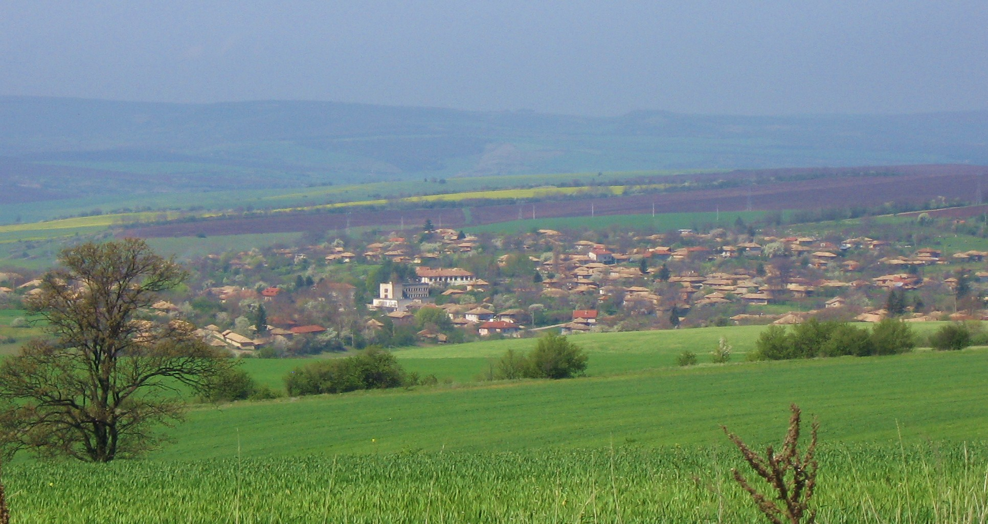 Blagoevo